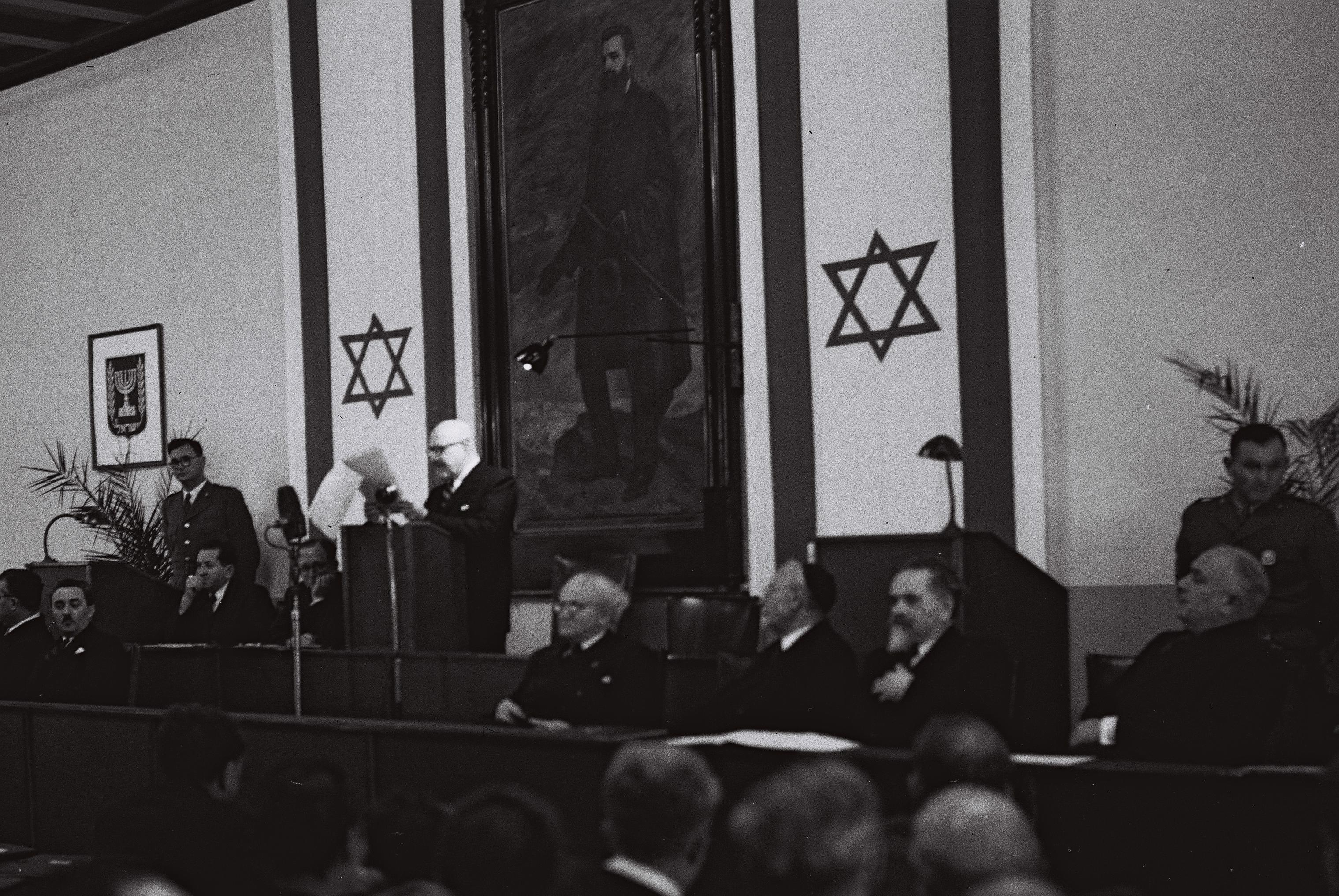 The president Haim Weizman opening the first session constituent assembly at the Jewish Agency building in Jerusalem.